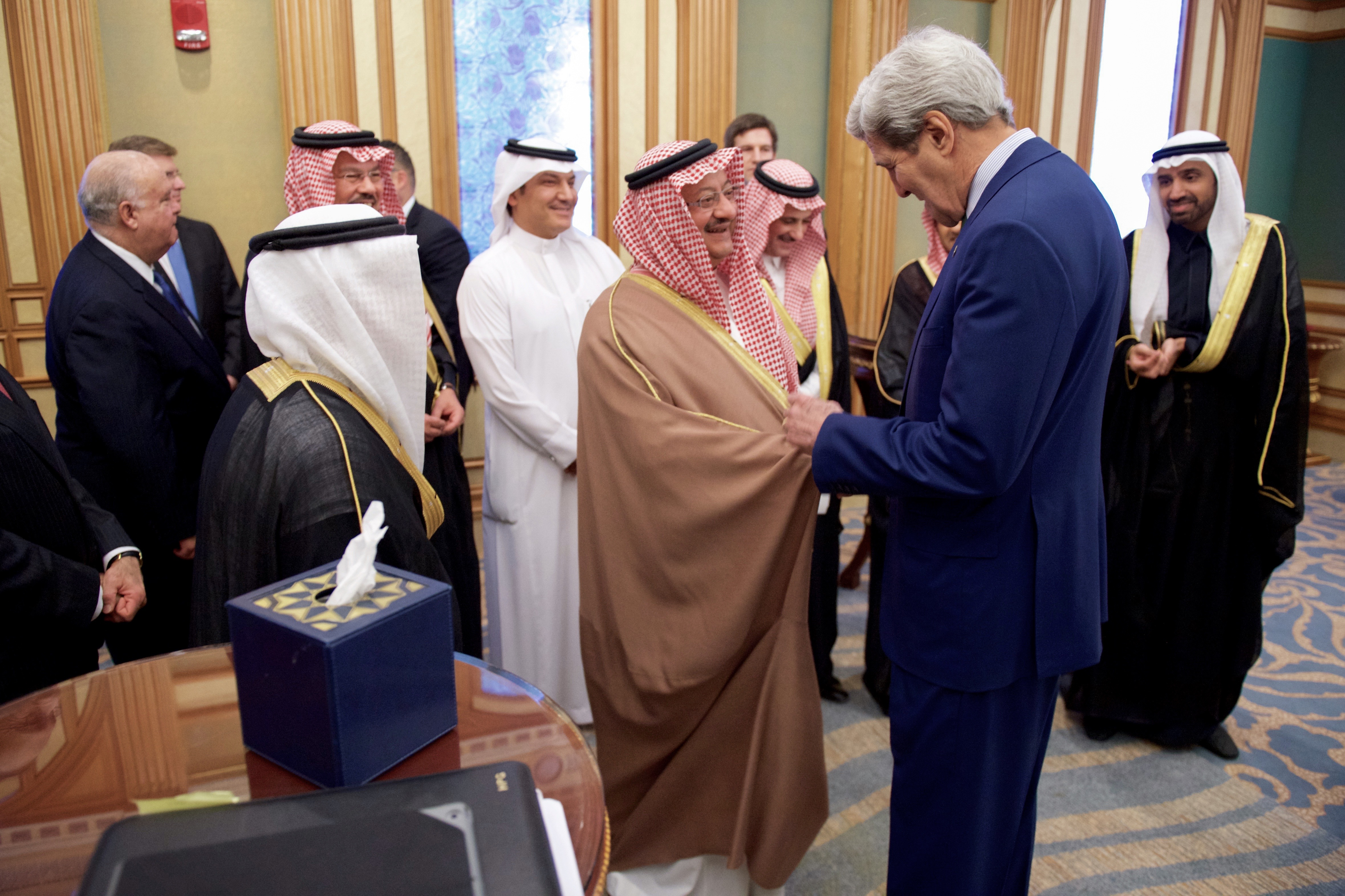 U.S. Secretary of State John Kerry meets with incoming Saudi Ambassador to United States, Prince Abdullah bin Faisal bin Turki at the Council of Saudi Chambers in Riyadh, Saudi Arabia on January 24, 2016. [State Department Photo/Public Domain]